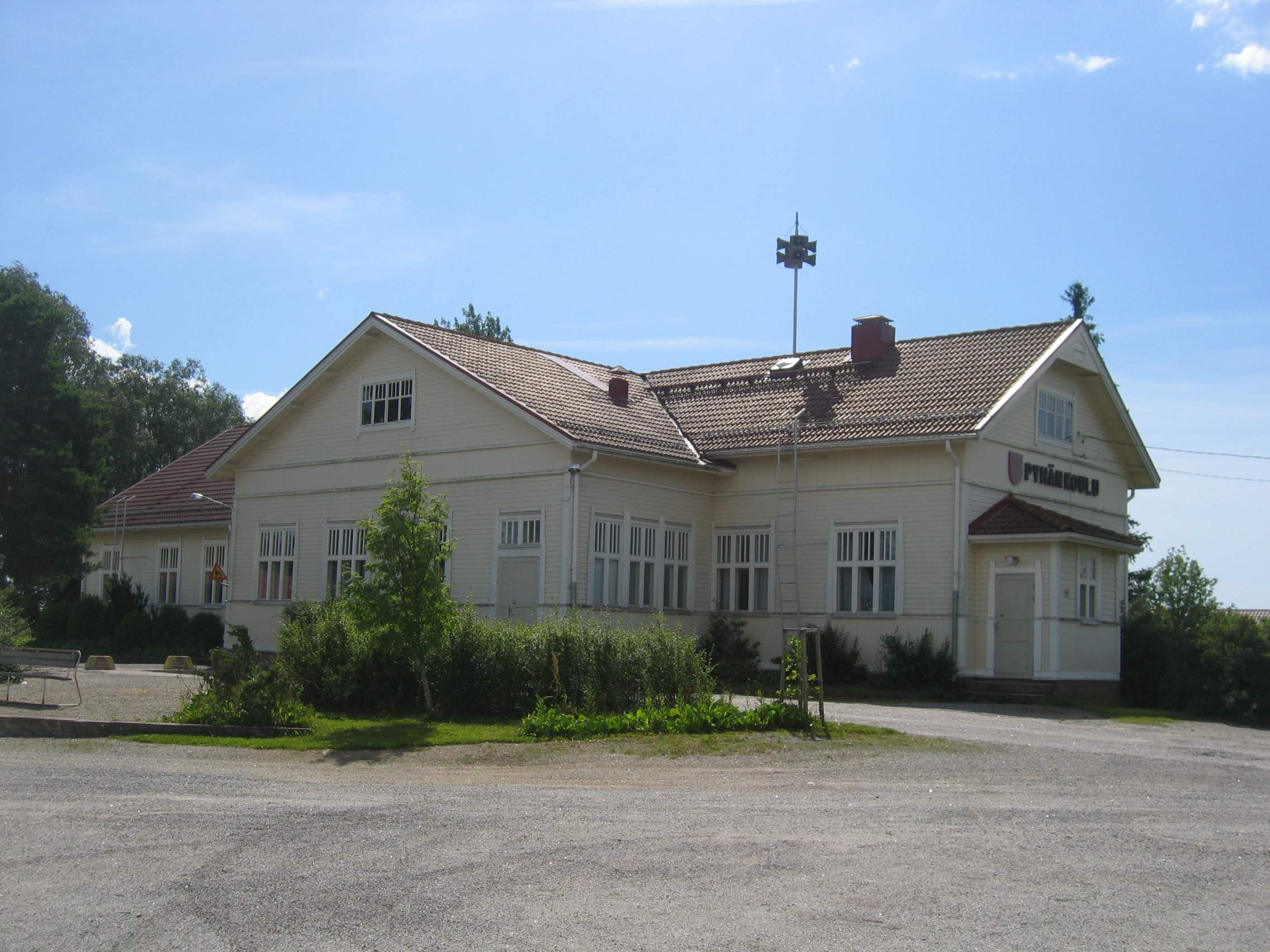 Pyhä school in Mietoinen, Finland